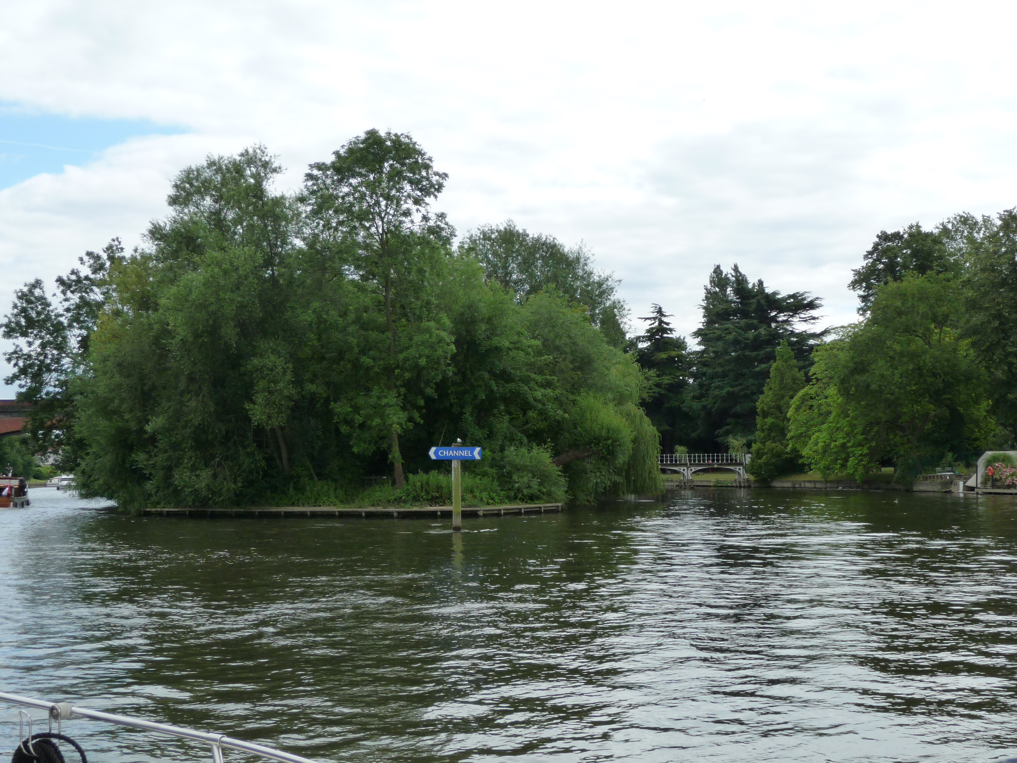 Guards Club Island aka Bucks Ait on the River Thames at Maidenhead. Looking downstream showing Guards Club Island Bridge and Guards Club Park to the right.